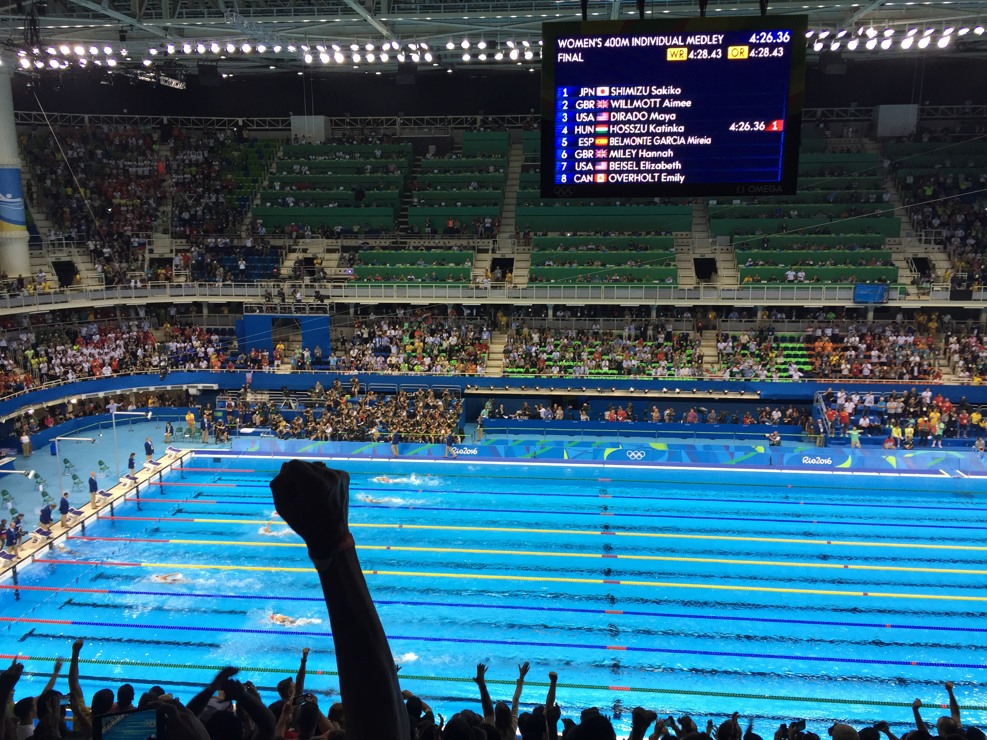 Rio 2016 Olympics - Swimming 6 August evening session